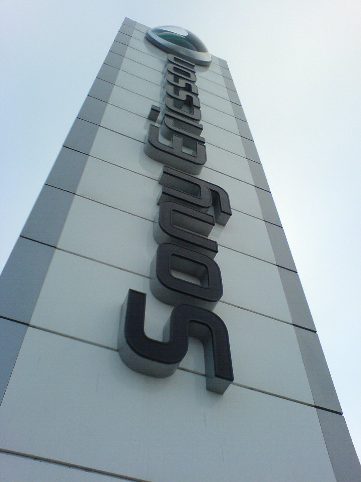 The Sony Ericsson sign at the vattentornet campus in Lund, Sweden.